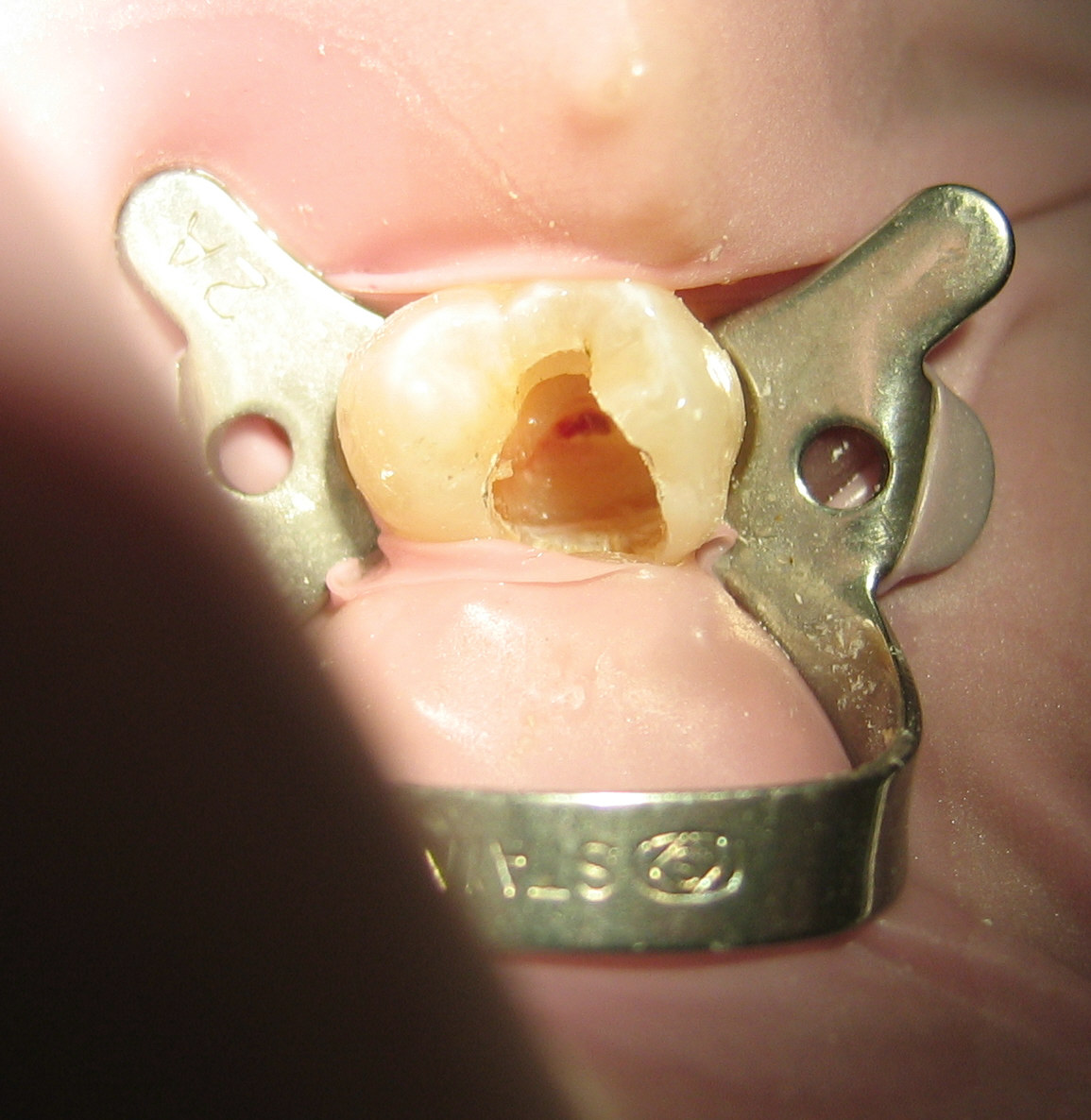 Tooth #13, the upper left second premolar, after excavation of DO decay. There was a carious exposure into the pulp chamber (red oval), and the photo was taken after endodontic access was initiated and the roof of the chamber was removed.